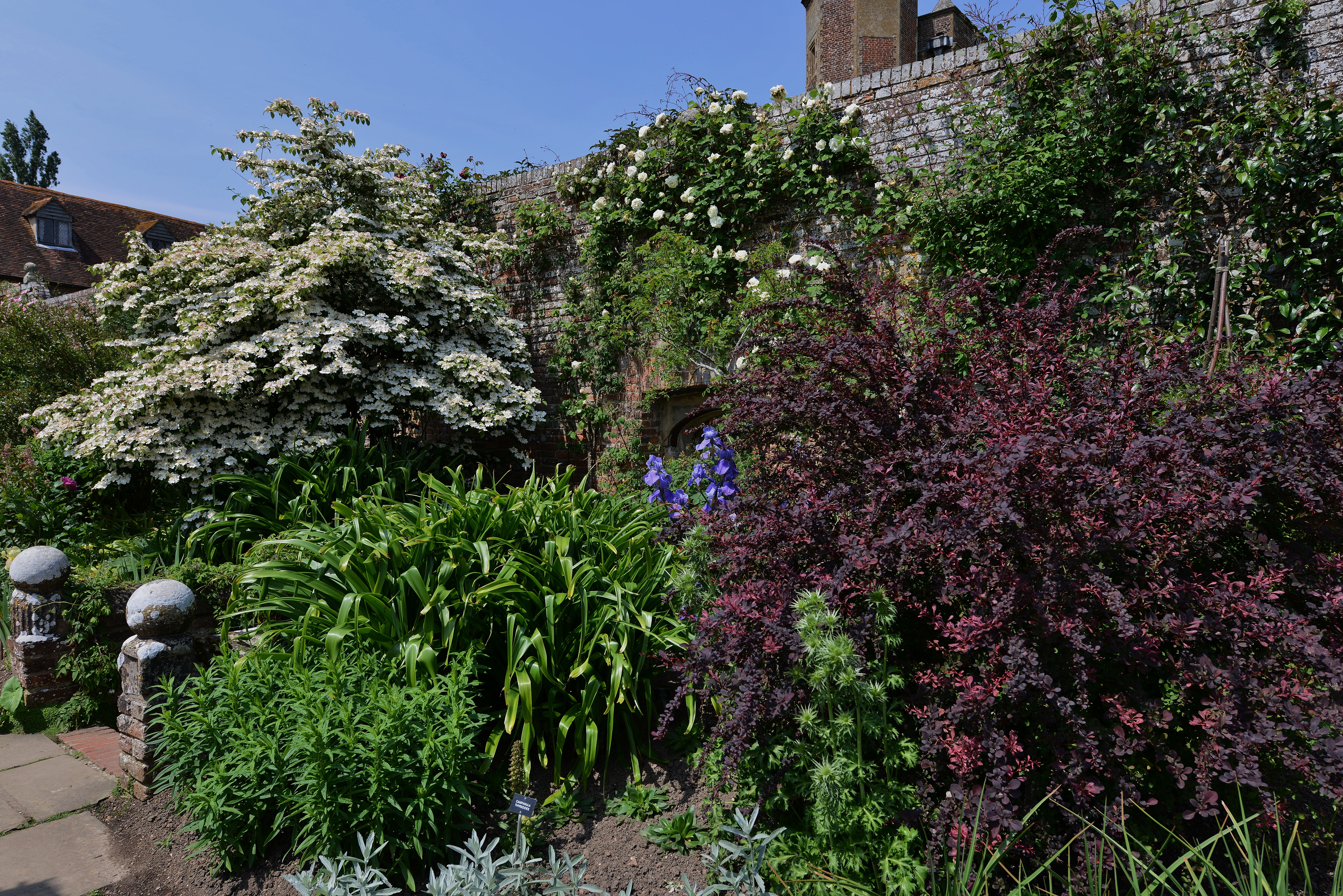 Photo by Michael Garlick